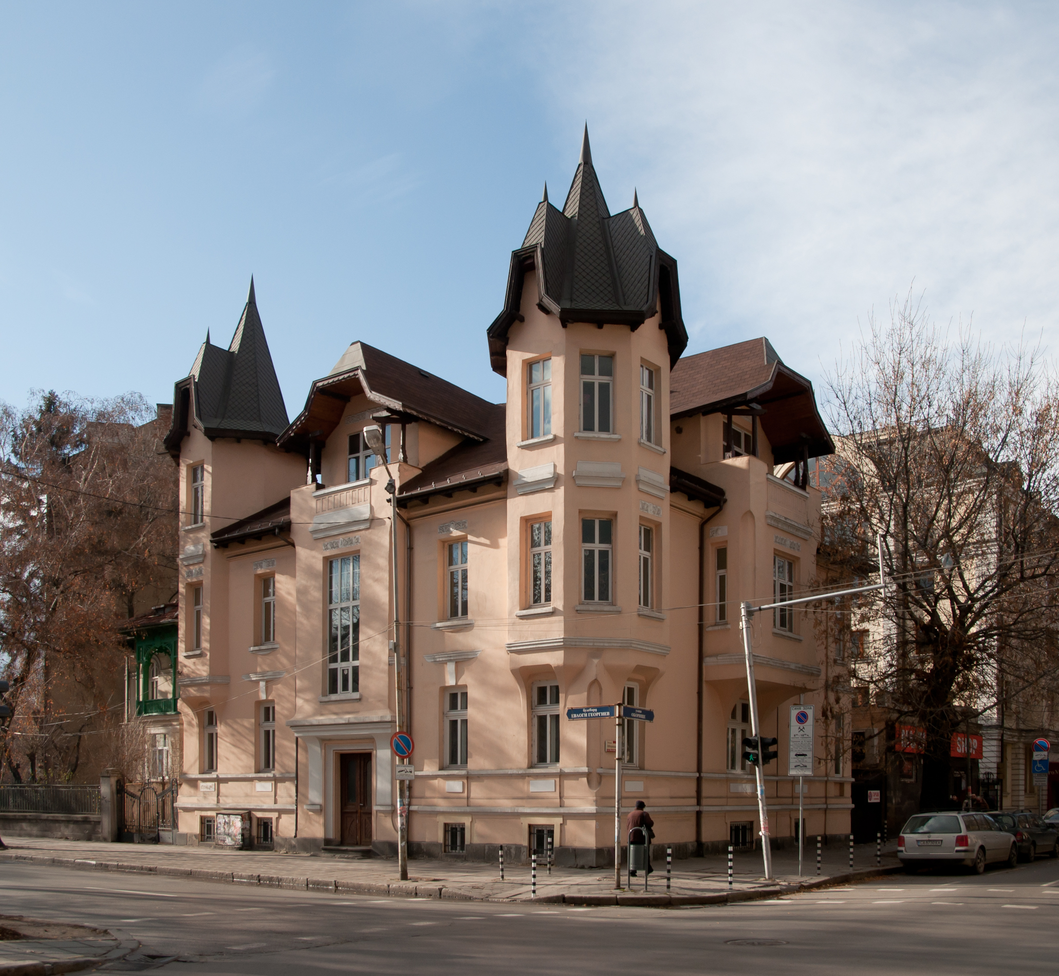 An old house located at the junction of „Georgievi brothers“ boulevard and „Oborishte“ street, Sofia, Bulgaria.